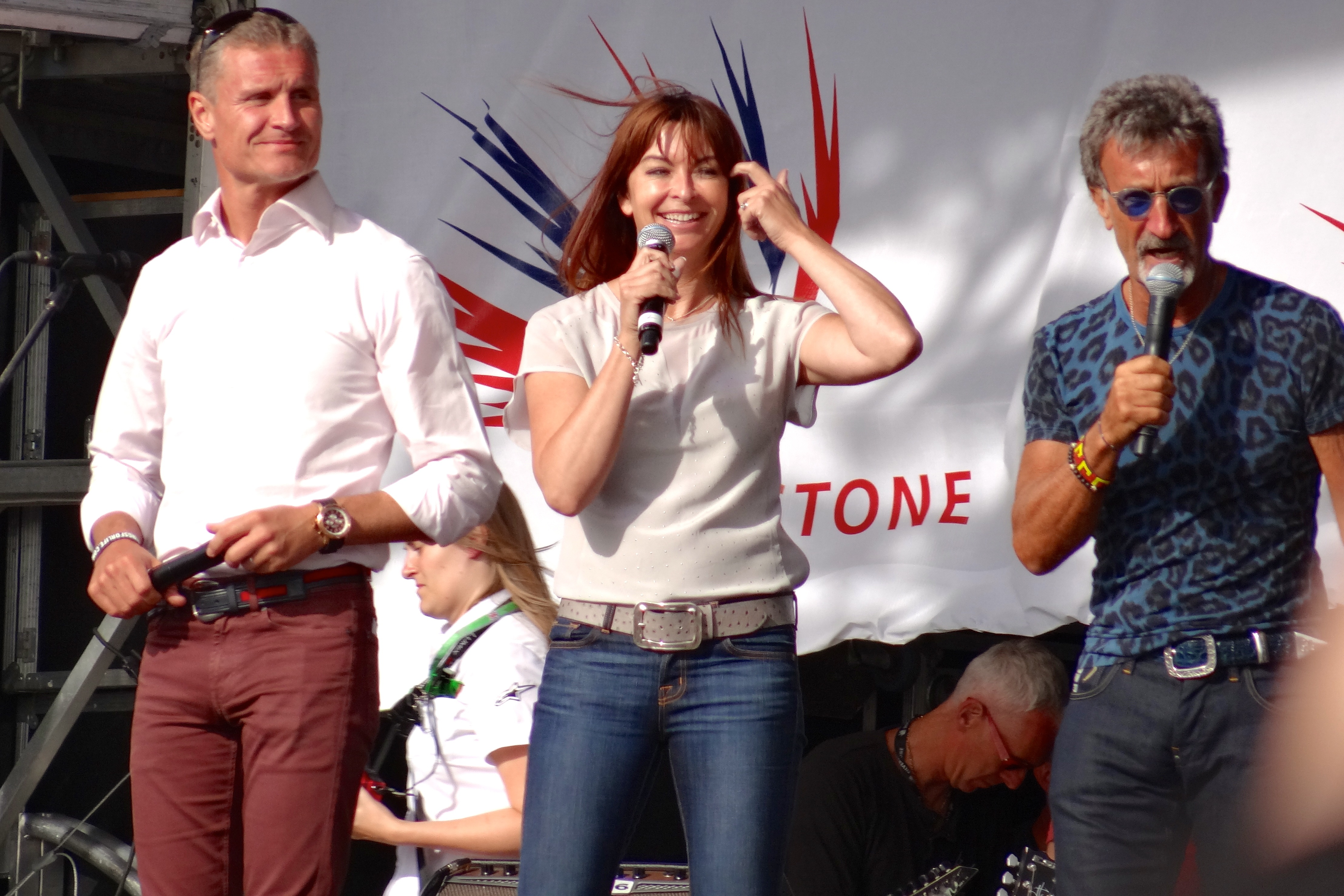 The BBC F1 presenters at the 2013 British Grand Prix, Silverstone Circuit. From left to right: David Coulthard, Suzi Perry and Eddie Jordan.